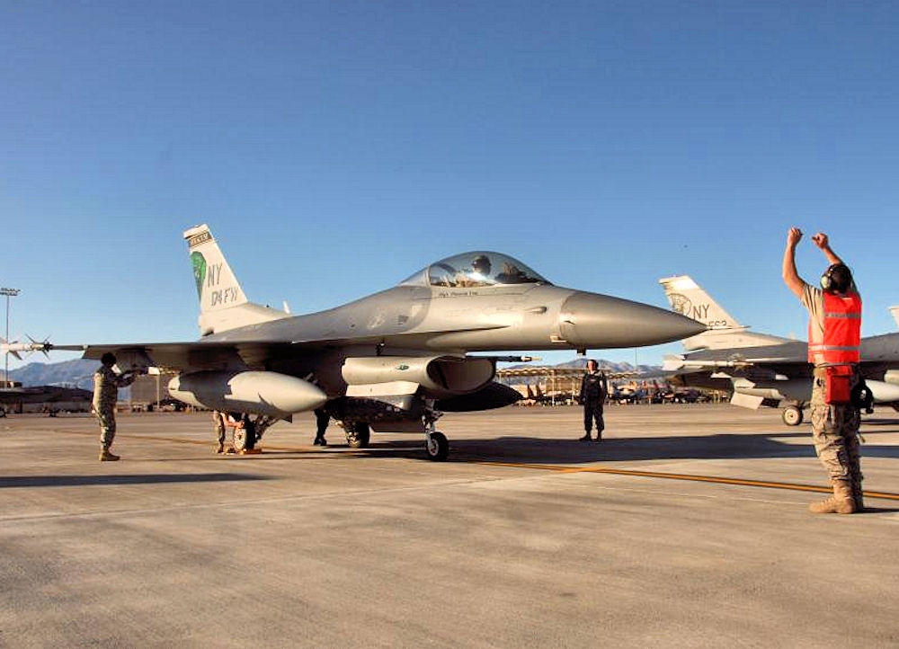 TSgt. Bacon stops F-16C block 30 #85-1570 from the 138th FS (marked 174 FW) while SSgt. West, TSgt. Speir, TSgt. Nazario and SSgt. Stinebrickner perform last check at the end of the run way at Nellis AFB on March 23rd, 2009. They are all members of the 174th FW who are on their last scheduled deployment as an F-16 unit. [USAF photo by SSgt. Ricky Best]